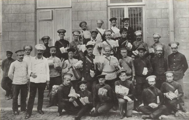 Postmans of Baku